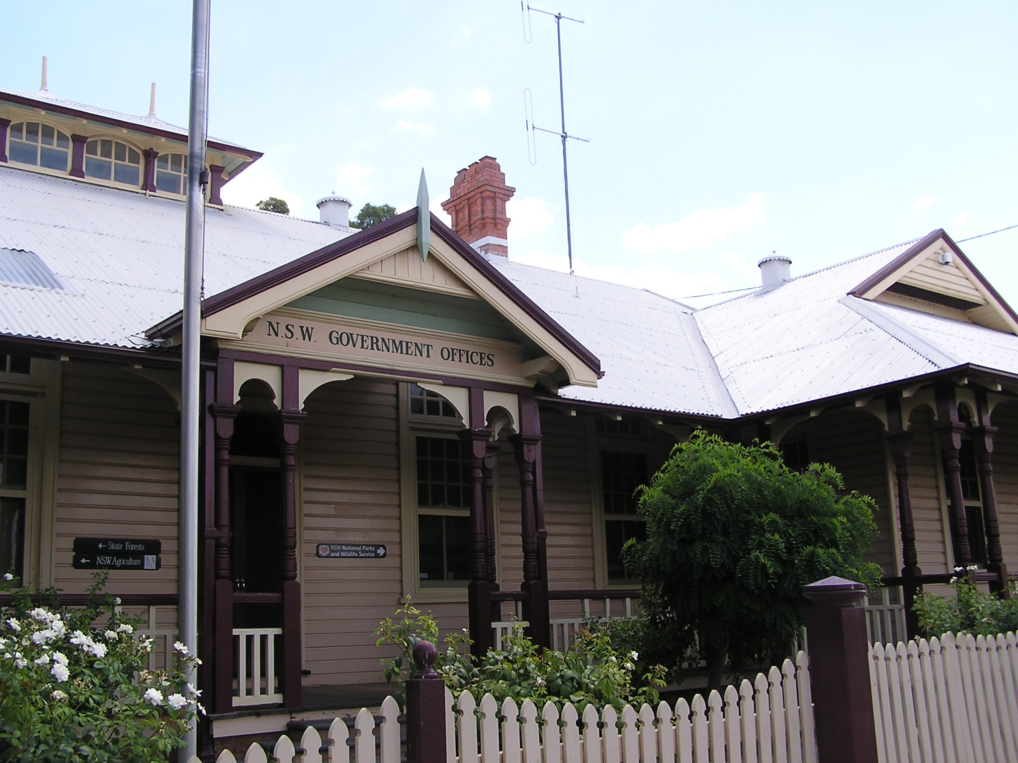 Lands Office at Forbes, New South Wales, Australia All timber, Federation style built in 1898 Picture taken by AYArktos January 2006